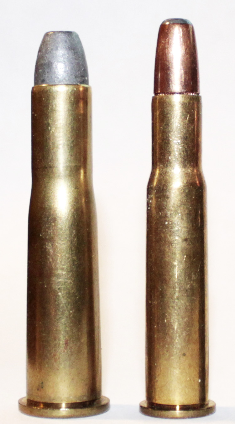 .38-56 WCF cartridge next to a .30-30 Winchester cartridge.